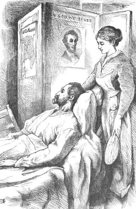 Illustration for Hospital Sketches by American author Louisa May Alcott. Taken from the frontispiece to an 1892 edition published by Roberts Brothers, but this same image was also used in an 1871 edition. In the background of the image is a portrait of President Abraham Lincoln. The caption reads: "JOHN. The manliest man among my forty." The quote refers to a Virginia blacksmith who the narrator (named Tribulation Periwinkle) cares for; the scene is one of the most emotional in the book.